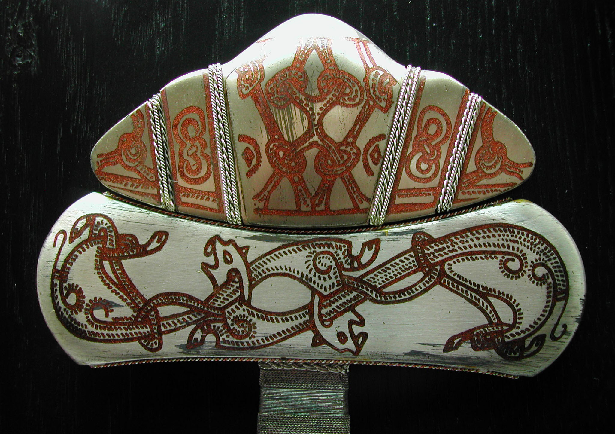 Close-up of a Viking sword pommel in the Haitabu Museum, Germany